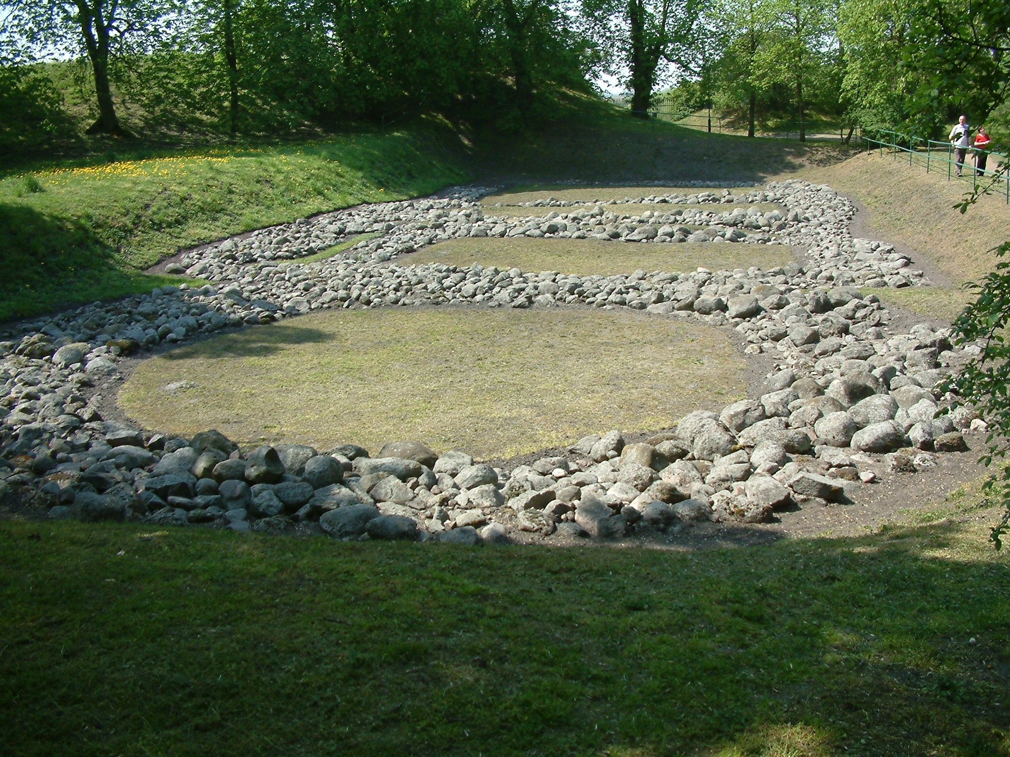 Remains of gród in Giecz